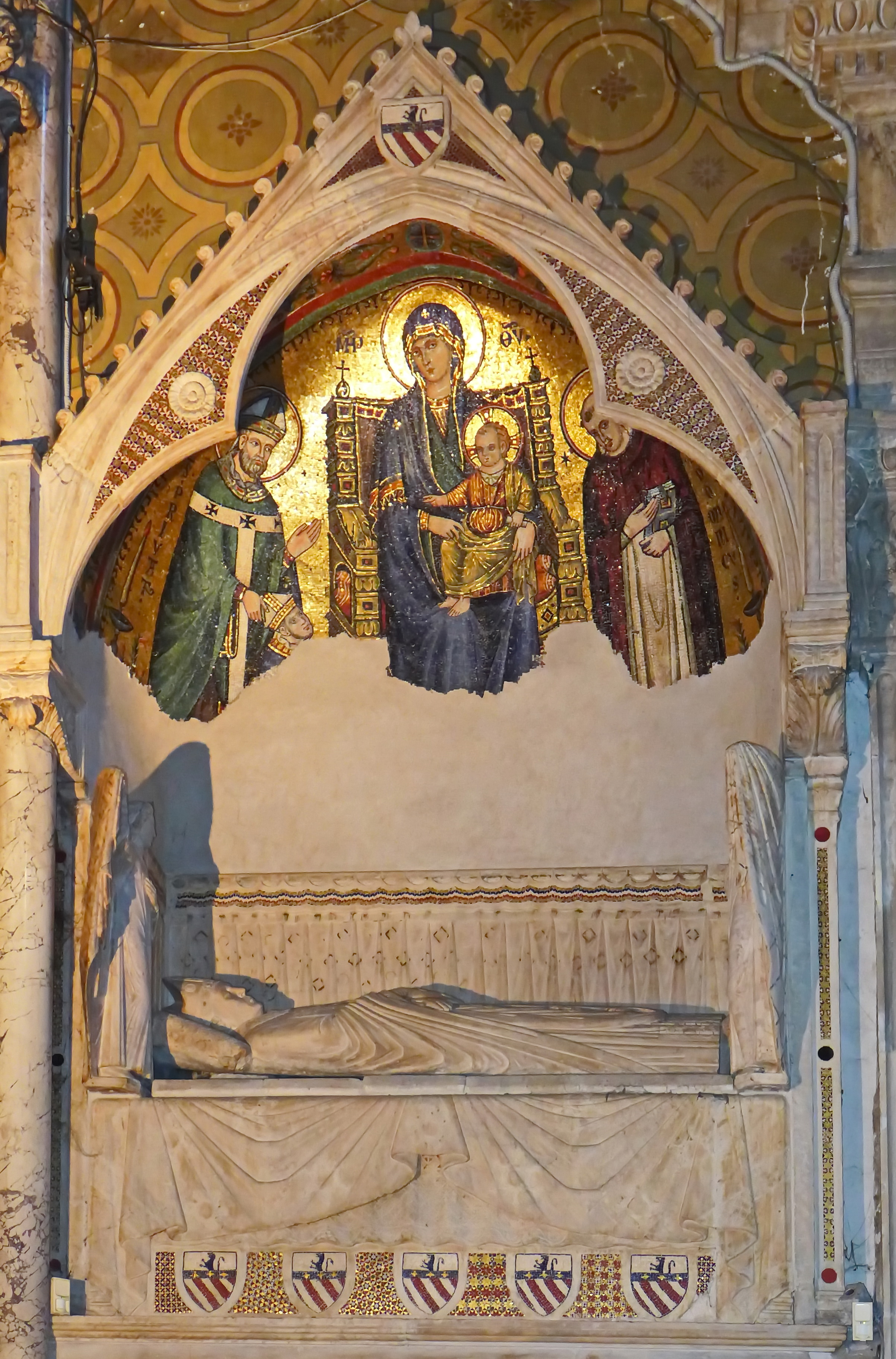 Santa Maria sopra Minerva (Rome), Tomb of Guillaume Drand